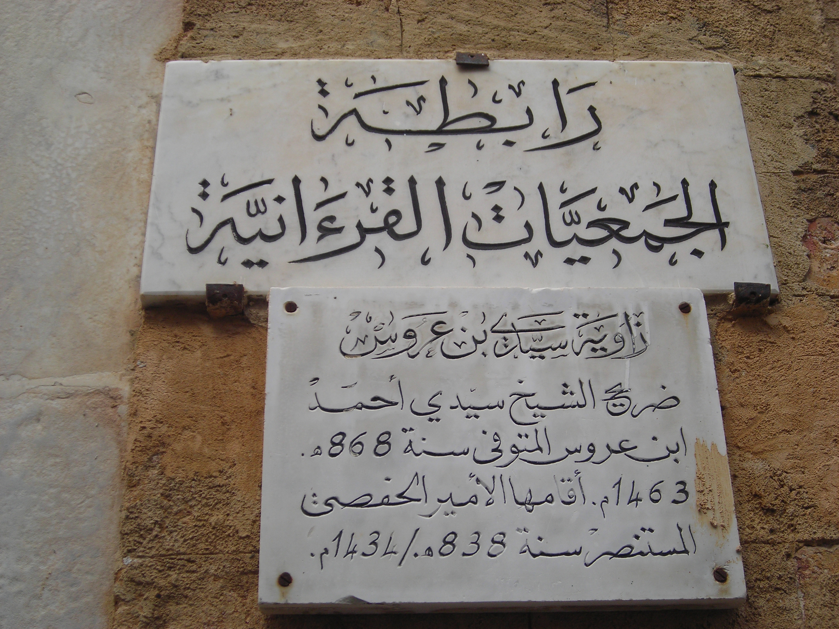 Zaouia de Sidi Ben Arous Tunis